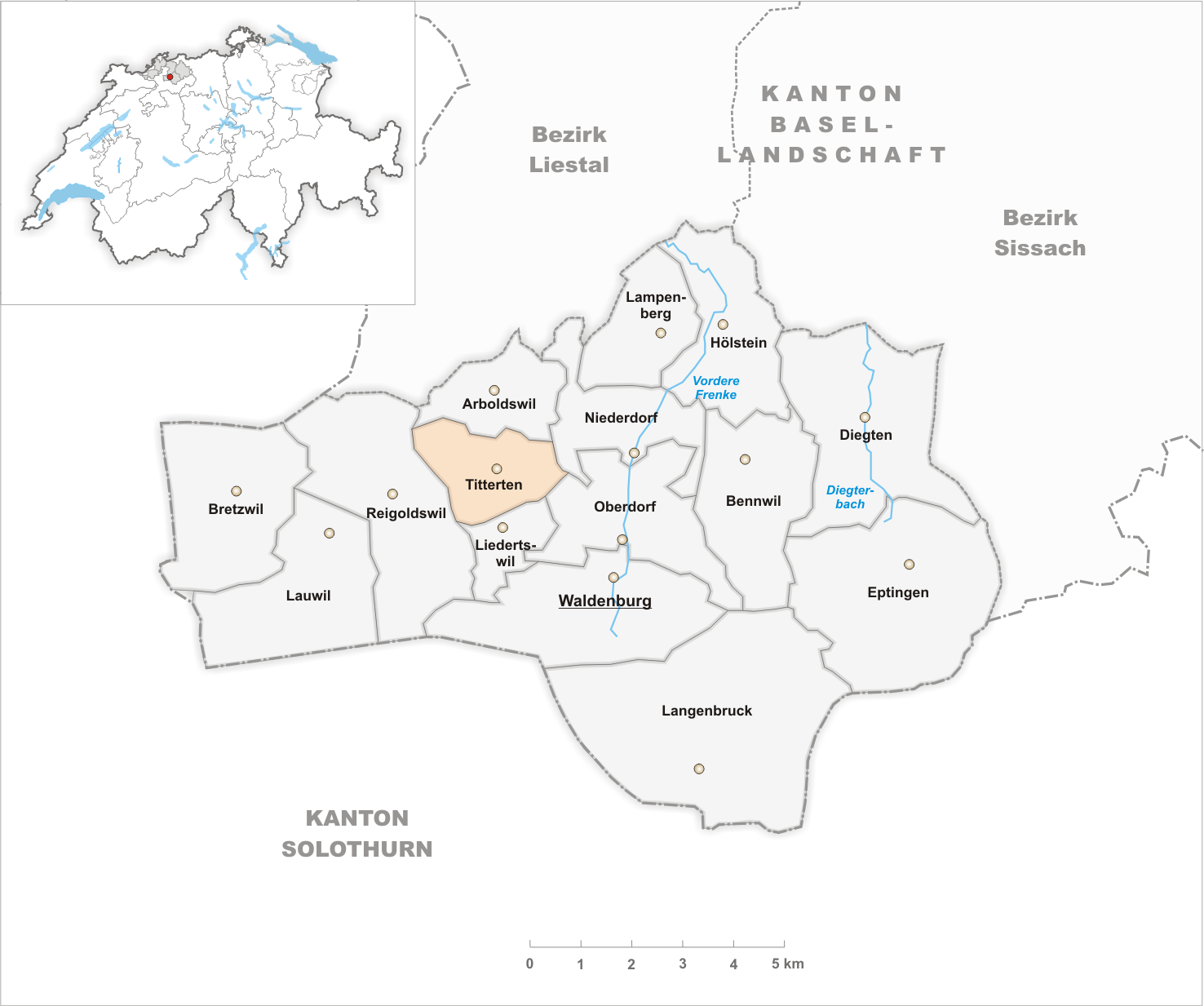 Municipality Titterten